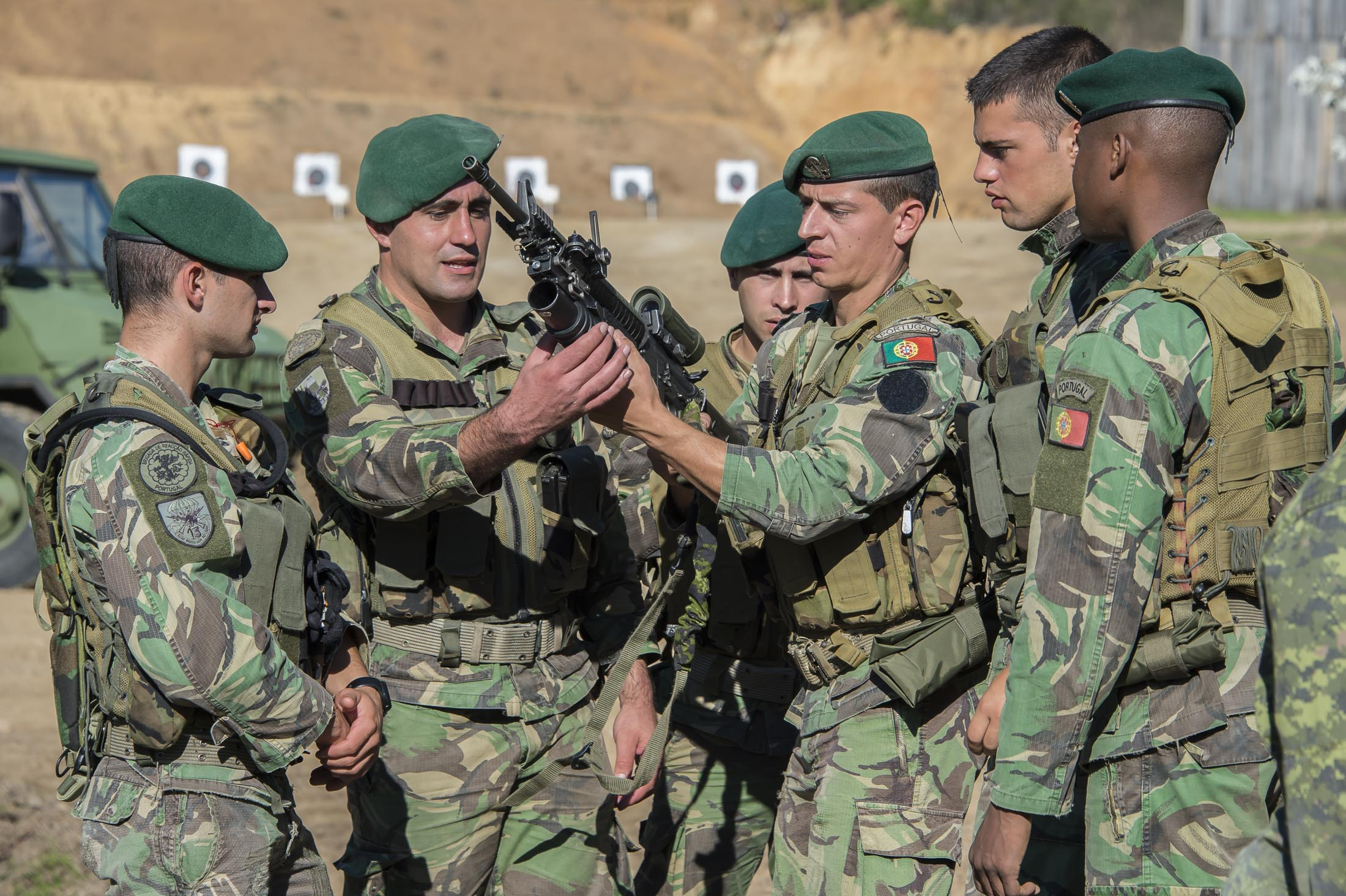 Portuguese Armed Forces members familiarize with the C7A2 rifles and M203A1 grenade launcher prior to the firing range in Tancos, Portugal for JOINTEX 15 as part of NATO exercise TRIDENT JUNCTURE 2015, October 22, 2015. Photo: Corporal Alex Parenteau, Canadian Forces Combat Camera 20151022_CAN_LAP_10